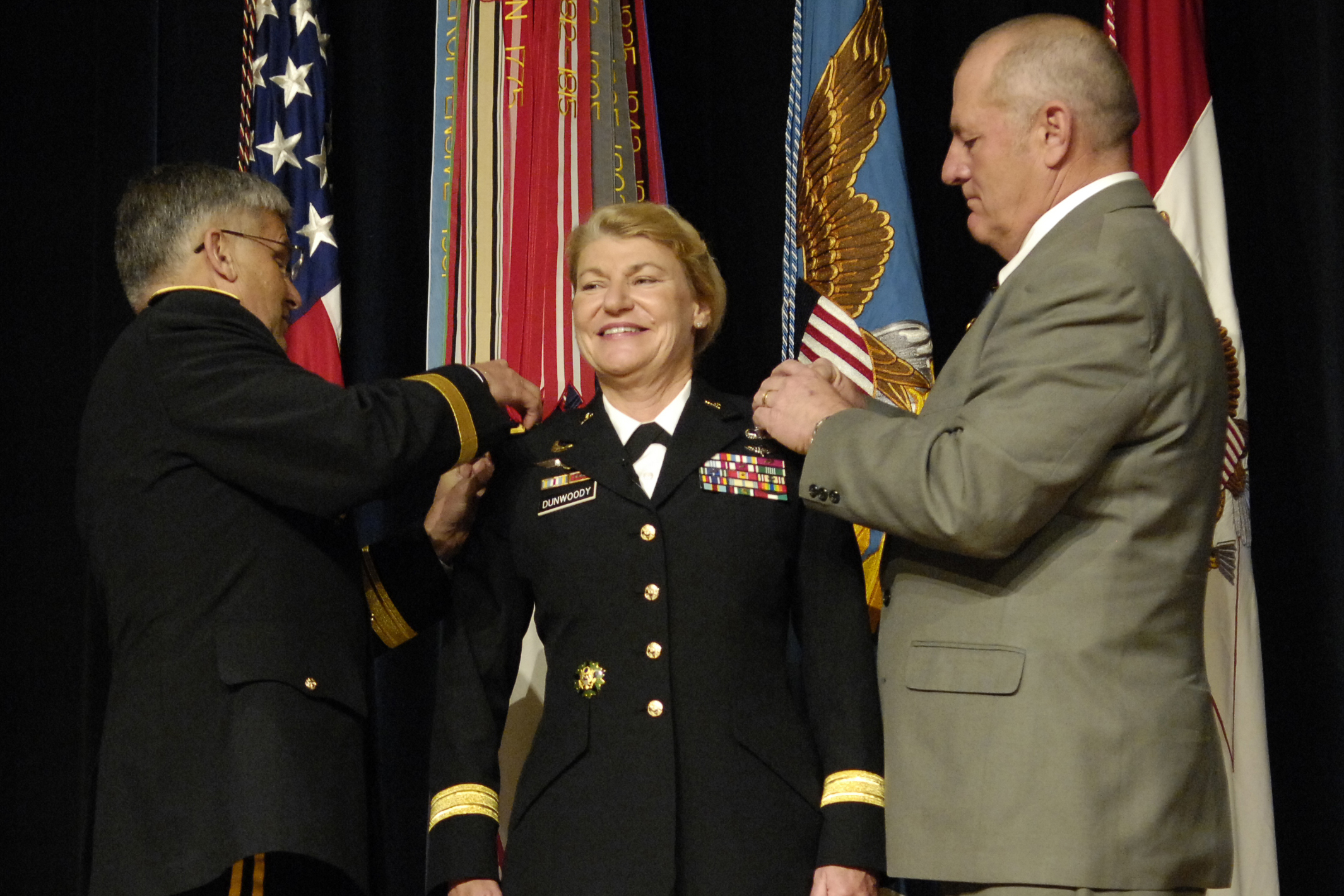 U.S. Army Lt. Gen. Ann E. Dunwoody smiles during her promotion to general, where she was pinned by Chief of Staff of the Army Gen. George W. Casey Jr., left, and her husband Craig Brotchie during a ceremony at the Pentagon, Nov. 14, 2008.